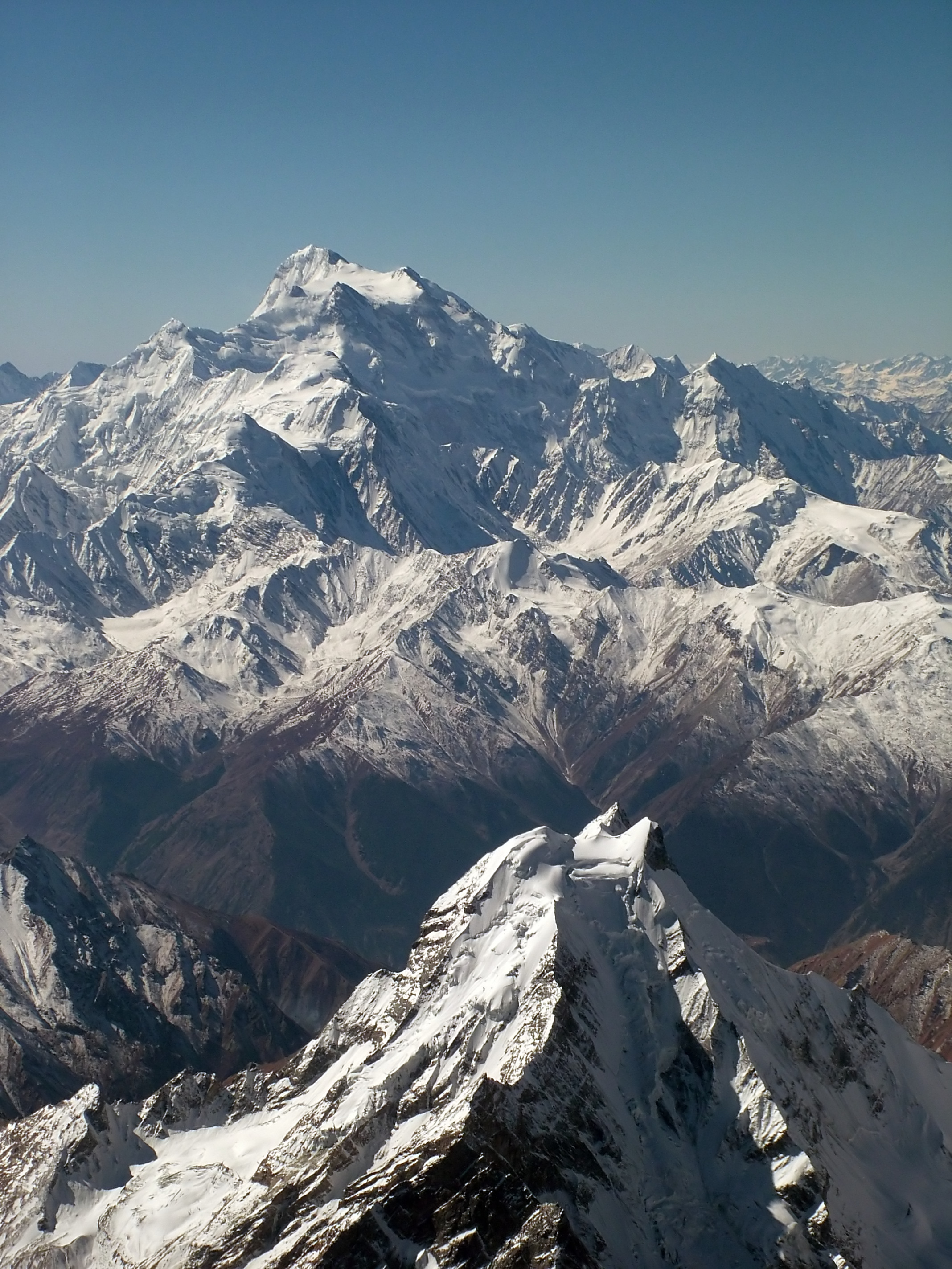 Aerial view to Nanga Parbat from north east. Rakhiot Face (north face) on the right.